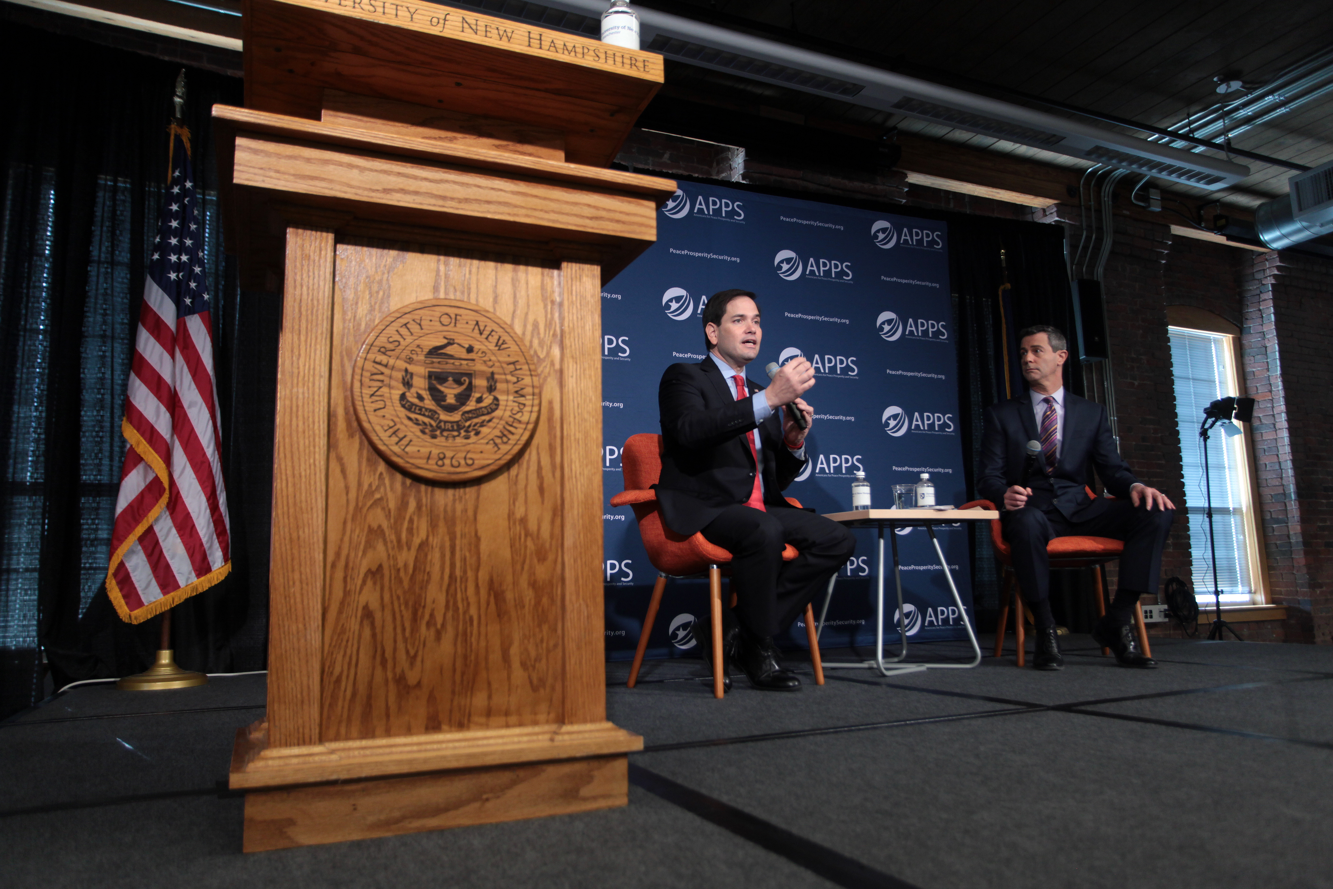 U.S. Senator Marco Rubio and Paul Steinhauser speaking at the Americans for Peace, Prosperity & Security Forum at the Pandora Building at the University of New Hampshire in Manchester, New Hampshire.